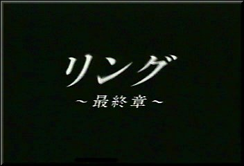 Ringu_Saishusho